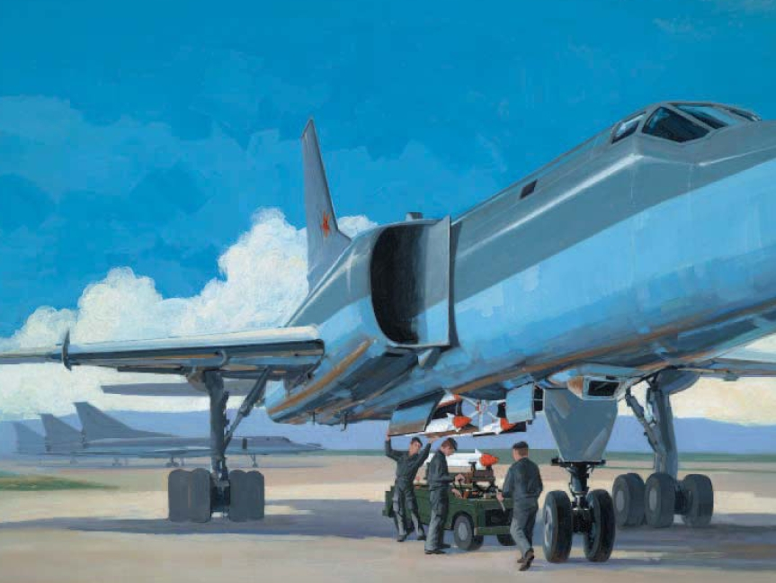 In this Artist's conception, Soviet technicians load nuclear-armed AS-16 short-range attack missiles onto a rotary launcher on a Tupolev Tu- 22M Backfire heavy bomber..